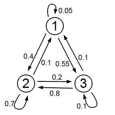 Transition Graph for a Markov-chain described by the stochastic Matrix P = ( 0.05 0.4 0.55 0.1 0.7 0.2 0.1 0.8 0.1 ) {\displaystyle P={\begin{pmatrix}0.05&0.4&0.55\\0.1&0.7&0.2\\0.1&0.8&0.1\end{pmatrix }